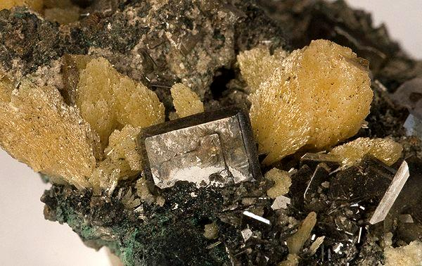 Wulfenite, Mimetite Locality: Tsumeb Mine (Tsumcorp Mine), Tsumeb, Otjikoto (Oshikoto) Region, Namibia (Locality at ) Size: 6.0 x 5.0 x 2.5 cm. A rare and fine combination plate from the Tsumeb Mine. Glassy, mostly transparent, smoky-colored wulfenite crystals with sharp beveled edges are richly and aesthetically scattered on the matrix. Bundles of lustrous, yellowish-tan mimetite are concentrated at the top of the piece and are a beautiful compliment. The largest wulfenite, at 9 mm, is aesthetically framed by two mimetite crystal clusters.